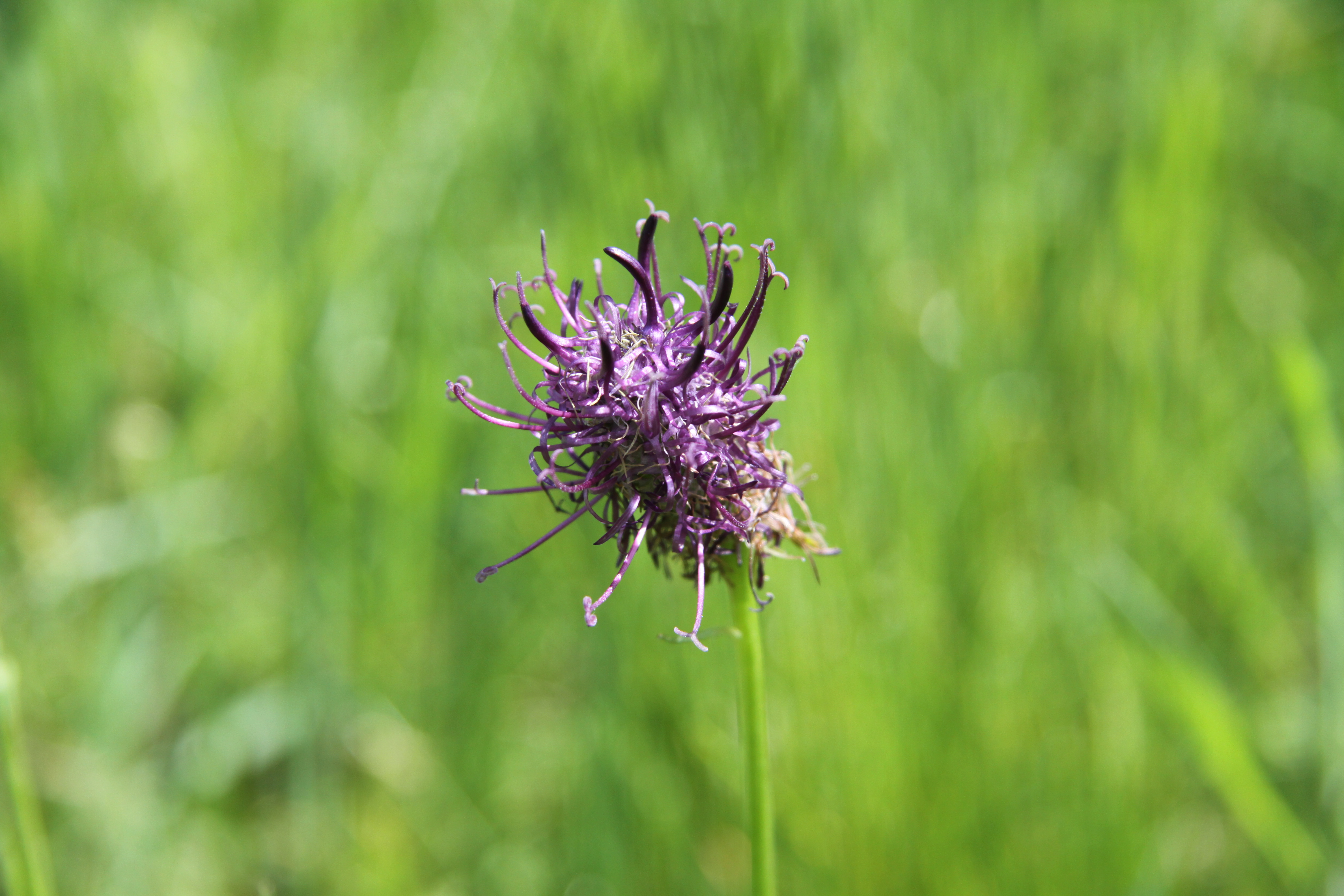 Phyteuma nigrum in nature reserve Kralovické louky near Kralovice, Prachatice District, Czech Republic - Google Maps - Google Earth